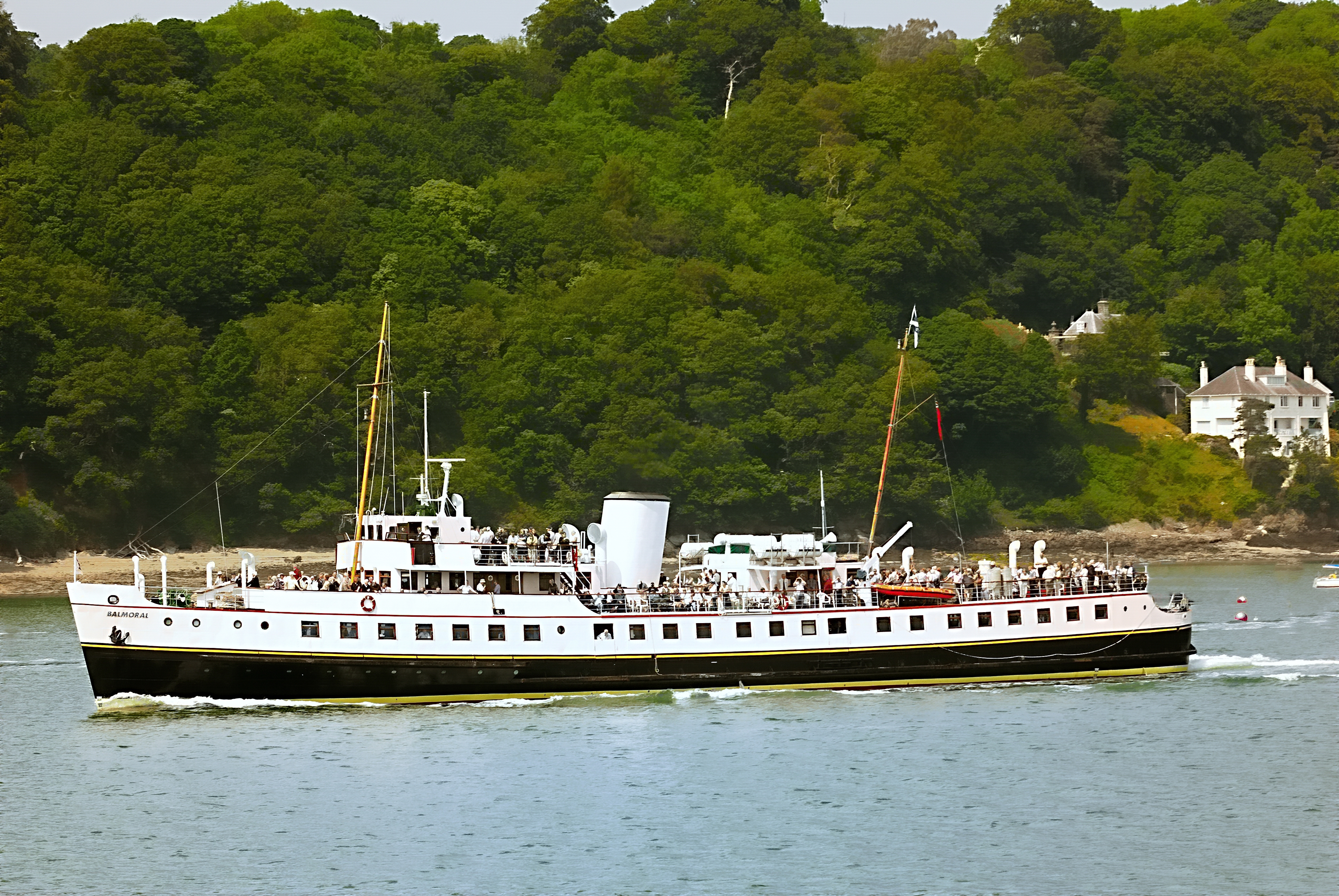 North Wales. The coastal pleasure steamer Balmoral in the Menai Straits as captured from Garth Pier, Bangor. The Balmoral spends fortnight each summer in North Welsh coast waters.